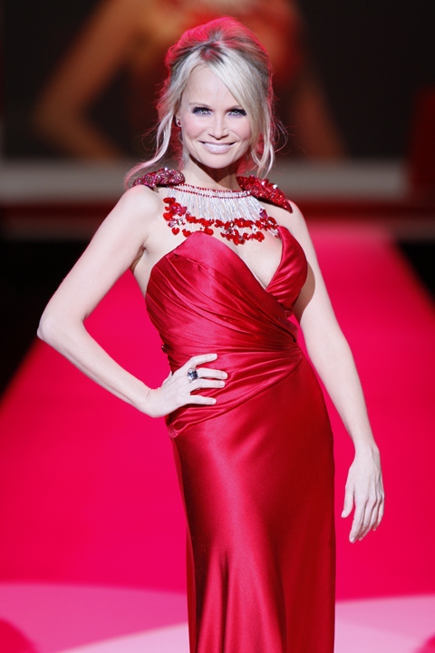 The Heart Truth® is a national awareness campaign for women about heart disease sponsored by the National Heart, Lung, and Blood Institute (NHLBI), part of the National Institutes of Health, U.S. Department of Health and Human Services (HHS). The Red Dress®, introduced by the NHLBI in 2002, is the national symbol for women and heart disease awareness. Visit for information on women and heart disease. ®, TM The Heart Truth, its logo and The Red Dress are trademarks of HHS. Participation by Mercedes-Benz Fashion Week, Diet Coke, Swarovski, Tylenol, St. Joseph's Aspirin, Bobbi Brown, and Brian Atwood does not imply endorsement by HHS.